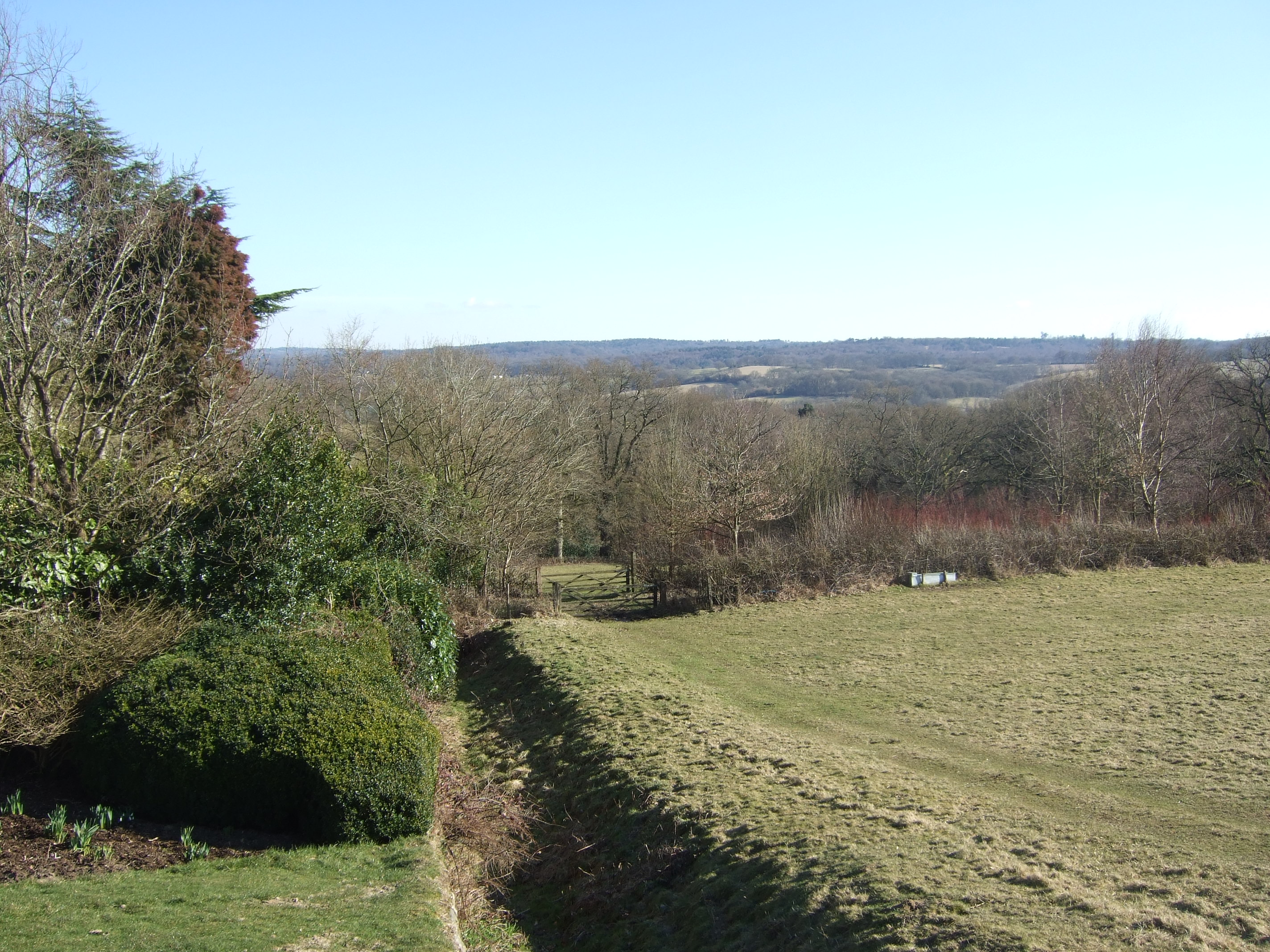 View of Ashdown Forest from the gardens of Standen House, East Grinstead.